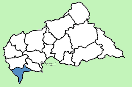 Map showing location of Sangha-Mbaéré_Prefecture in Central African Republic